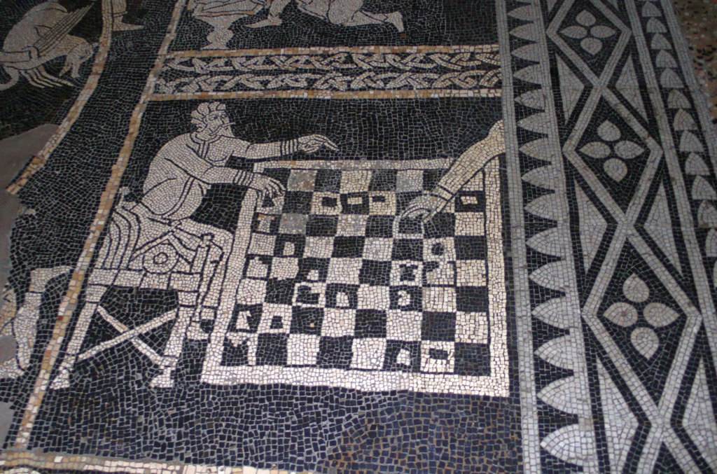 Piacenza, Duomo, mosaic of chess plaýers